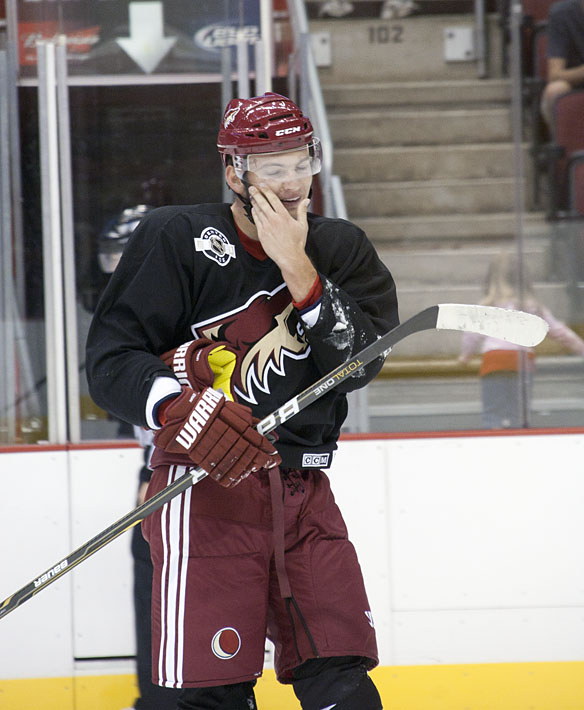 Professional hockey player Martin Hanzal durning his time with the Phoenix Coyotes.